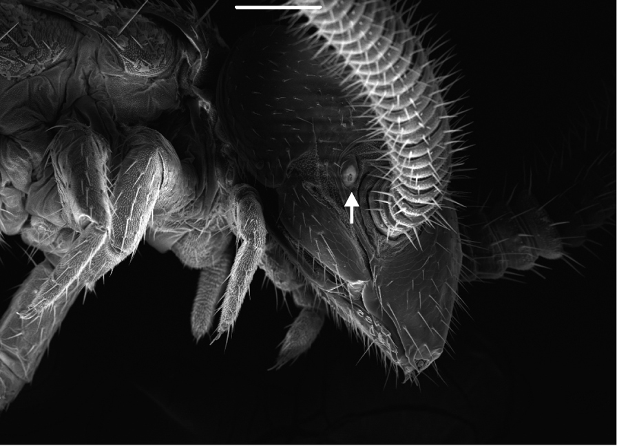 Colombian symphylan, head and anterior legs. Tömösváry organ (arrow) near base of antenna. Scale bar = 100 µm